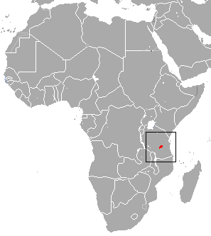 Udzungwa Red Colobus (Procolobus gordonorum) range